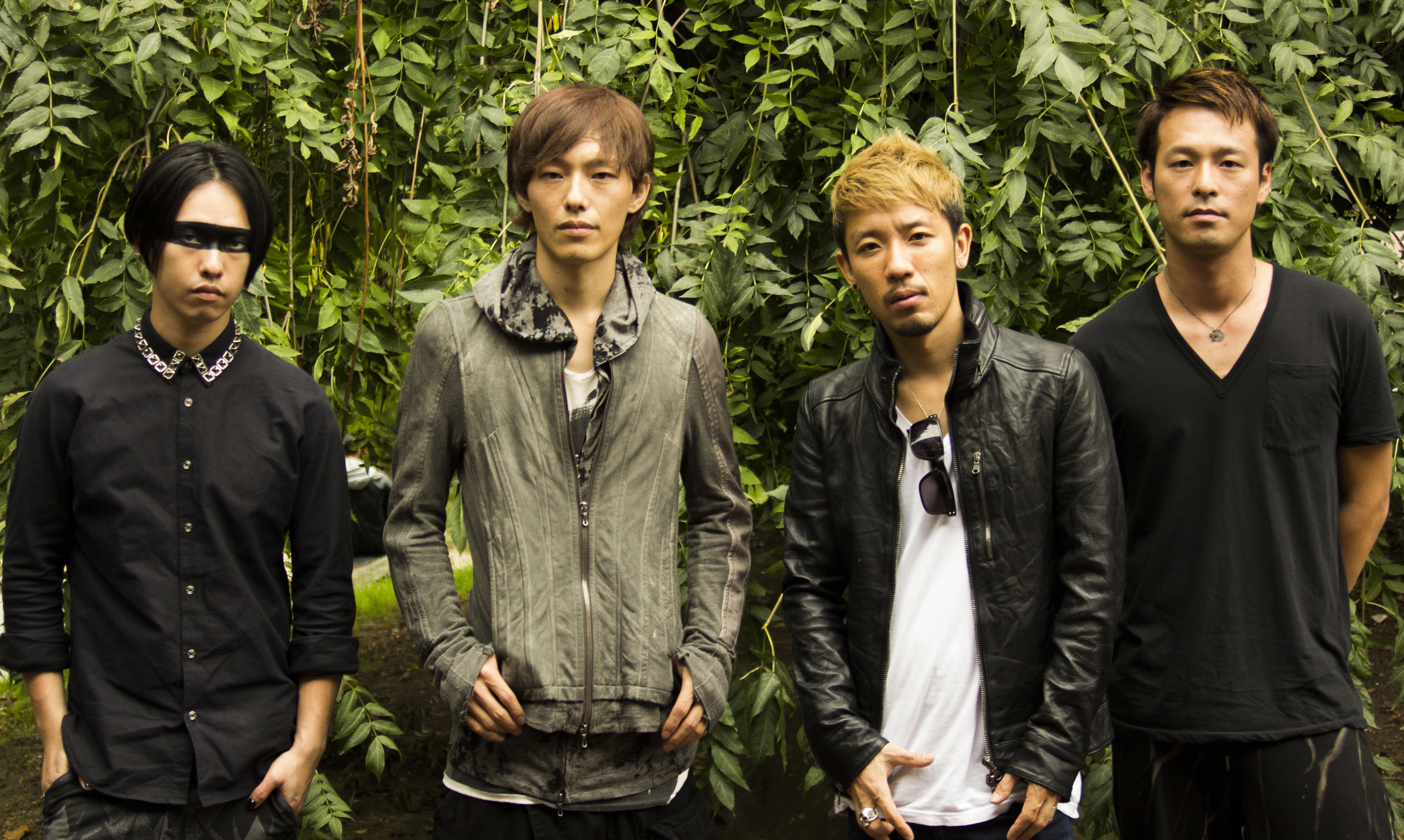 Spyair on Sep 22, 2013